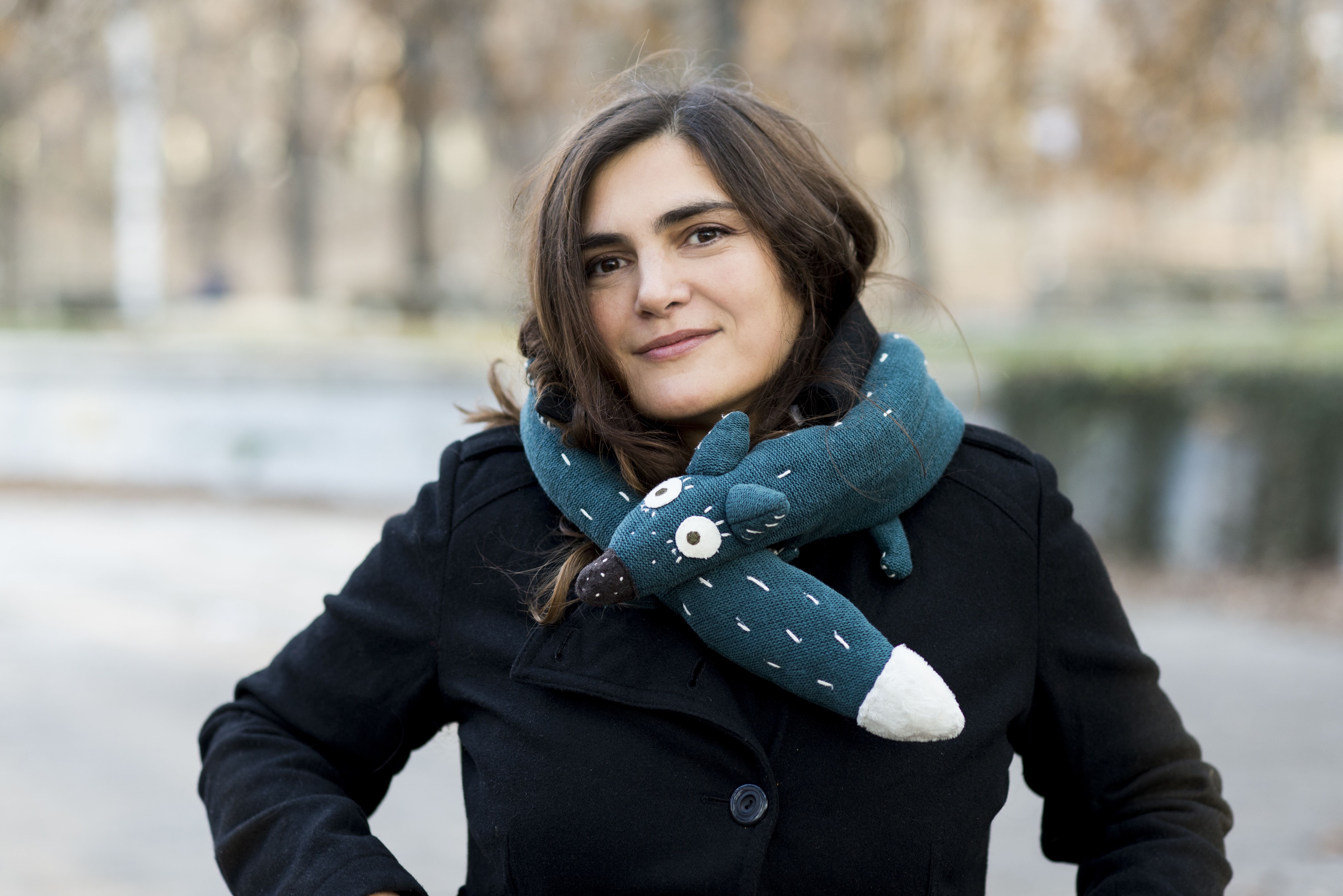 Zornitsa Hristova, Bulgarian writer and translator